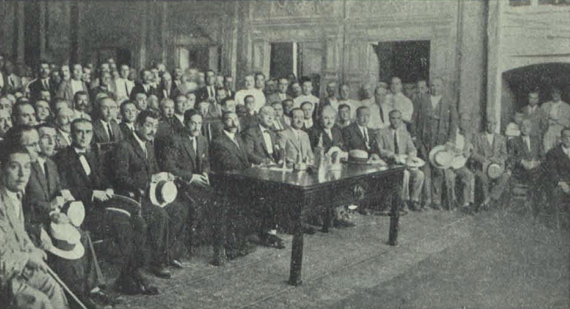 The 5th anniversary of the current regime: acts celebrated in different towns by the Patriotic Union. Cartagena. The presidency formed by the Governor, mayors of Murcia and Cartagena and other distinguished personalities during the rally held at Teatro Circo.